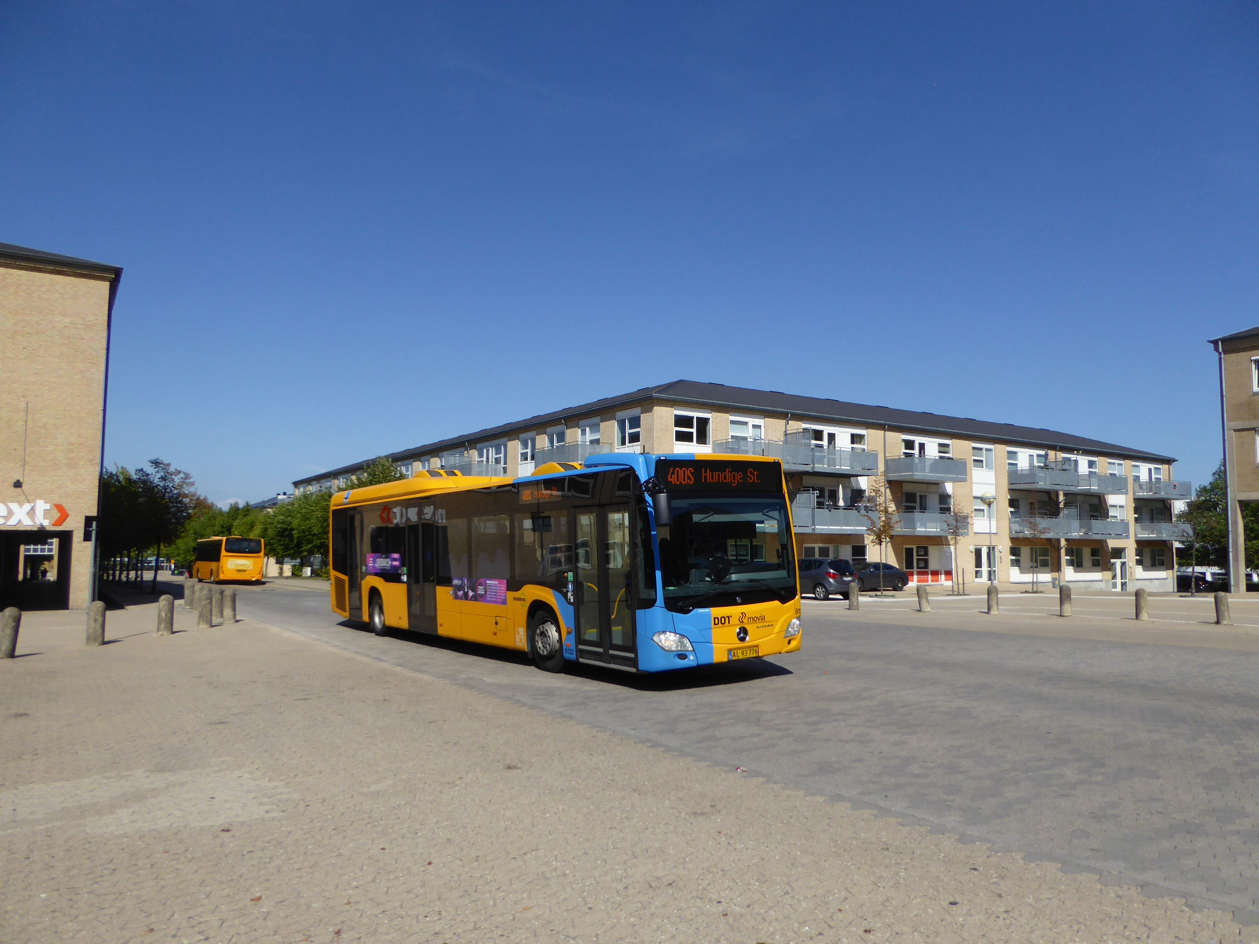 Movia bus line 400S on Høje Taastrup Boulevard in Høje Taastrup in Copenhagen.